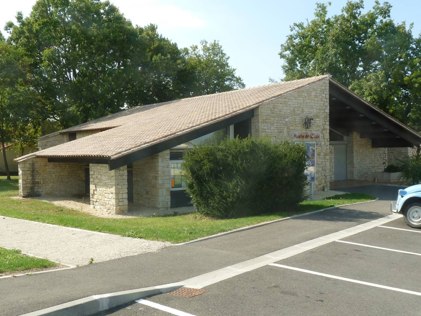 town hall of Claix, Charente, SW France